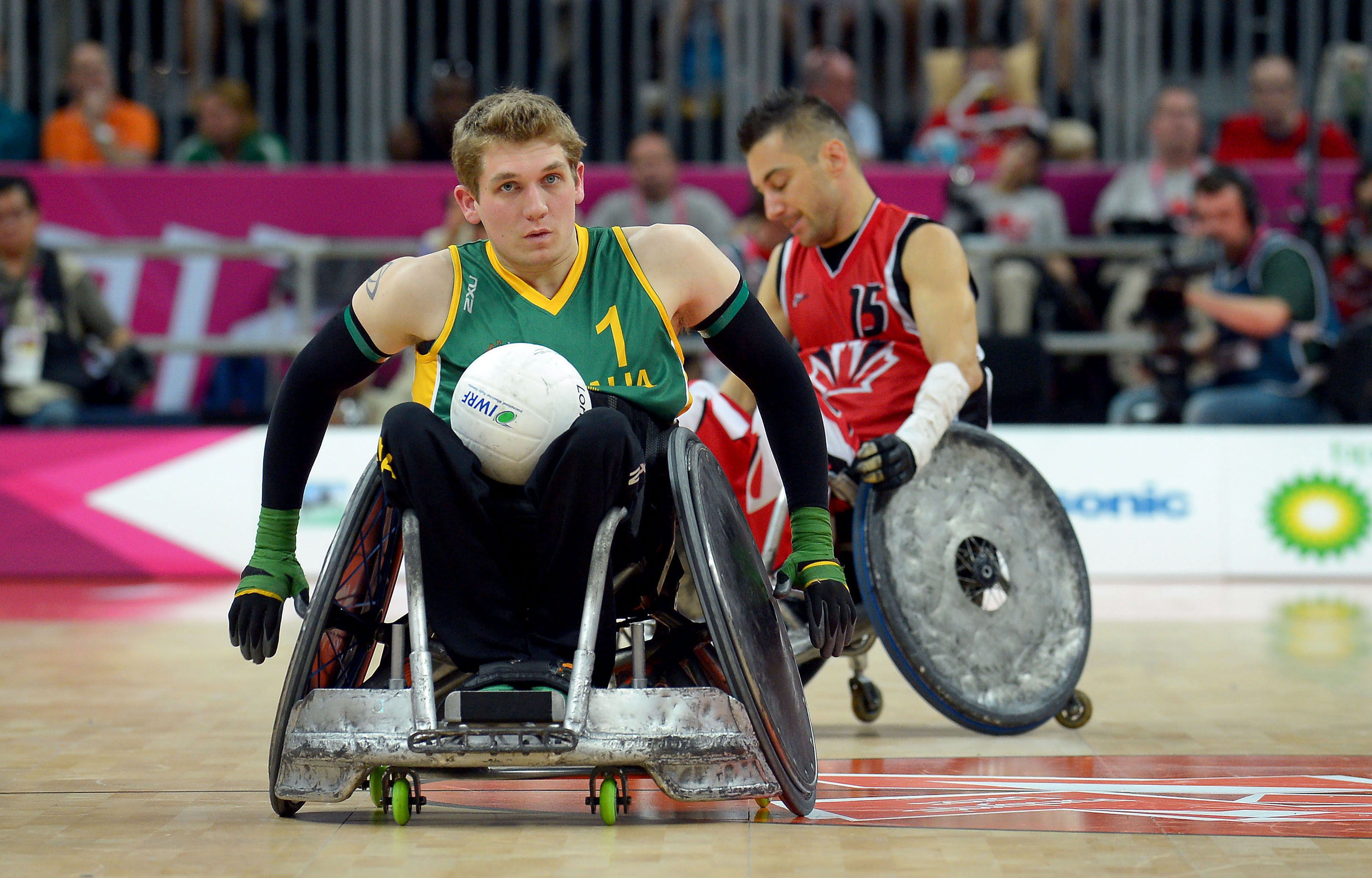 Photograph of Australian Paralympic team member Ben Newton at the 2012 Summer Paralympic Games in London